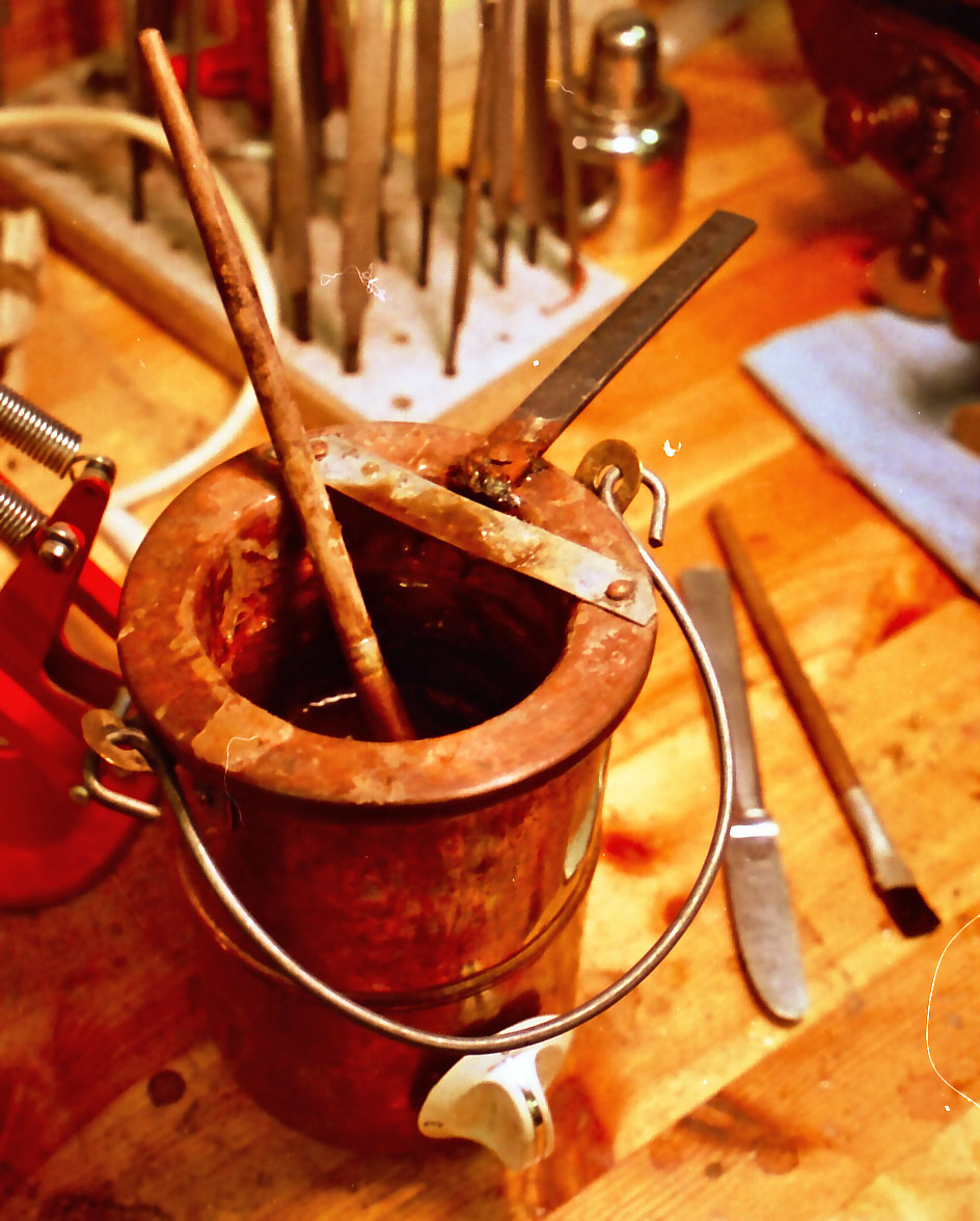 Electric heated glue pot.